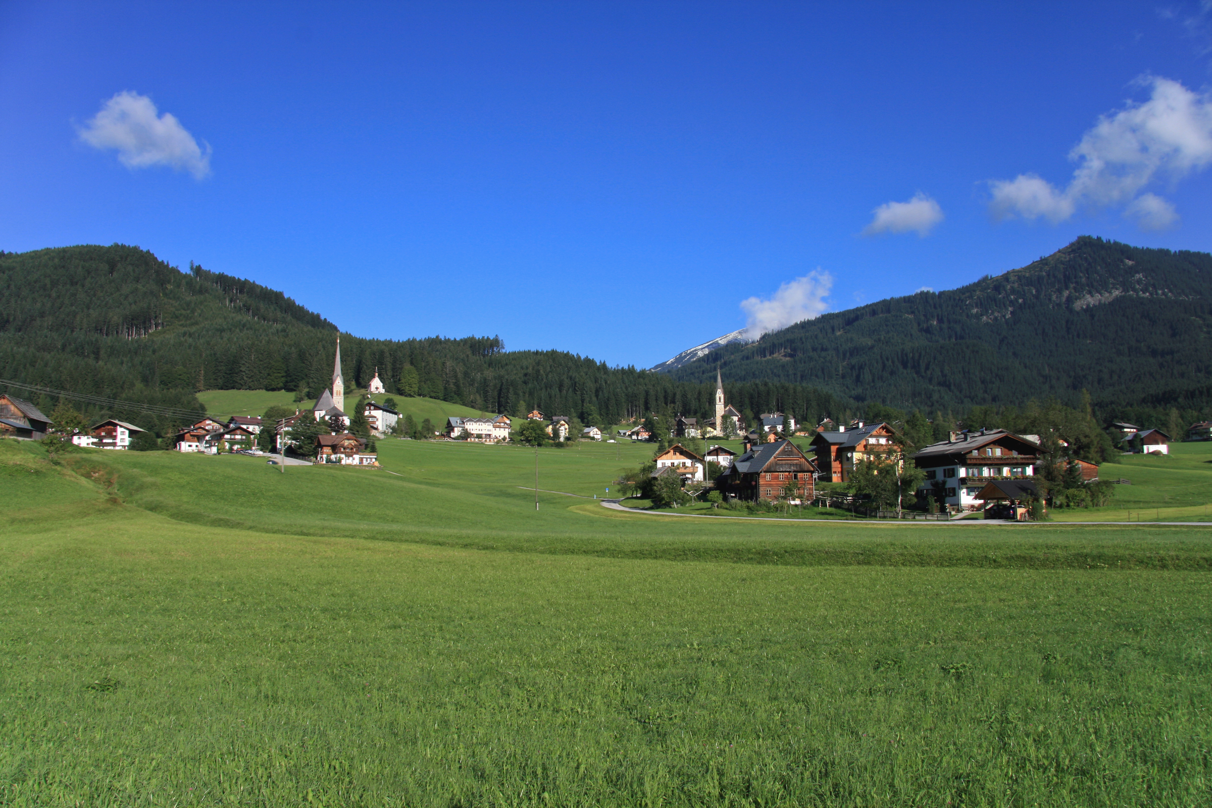 View on middle part of village Gosau with Protestant church and Catholic church and Calvary chapel, Upper Austria